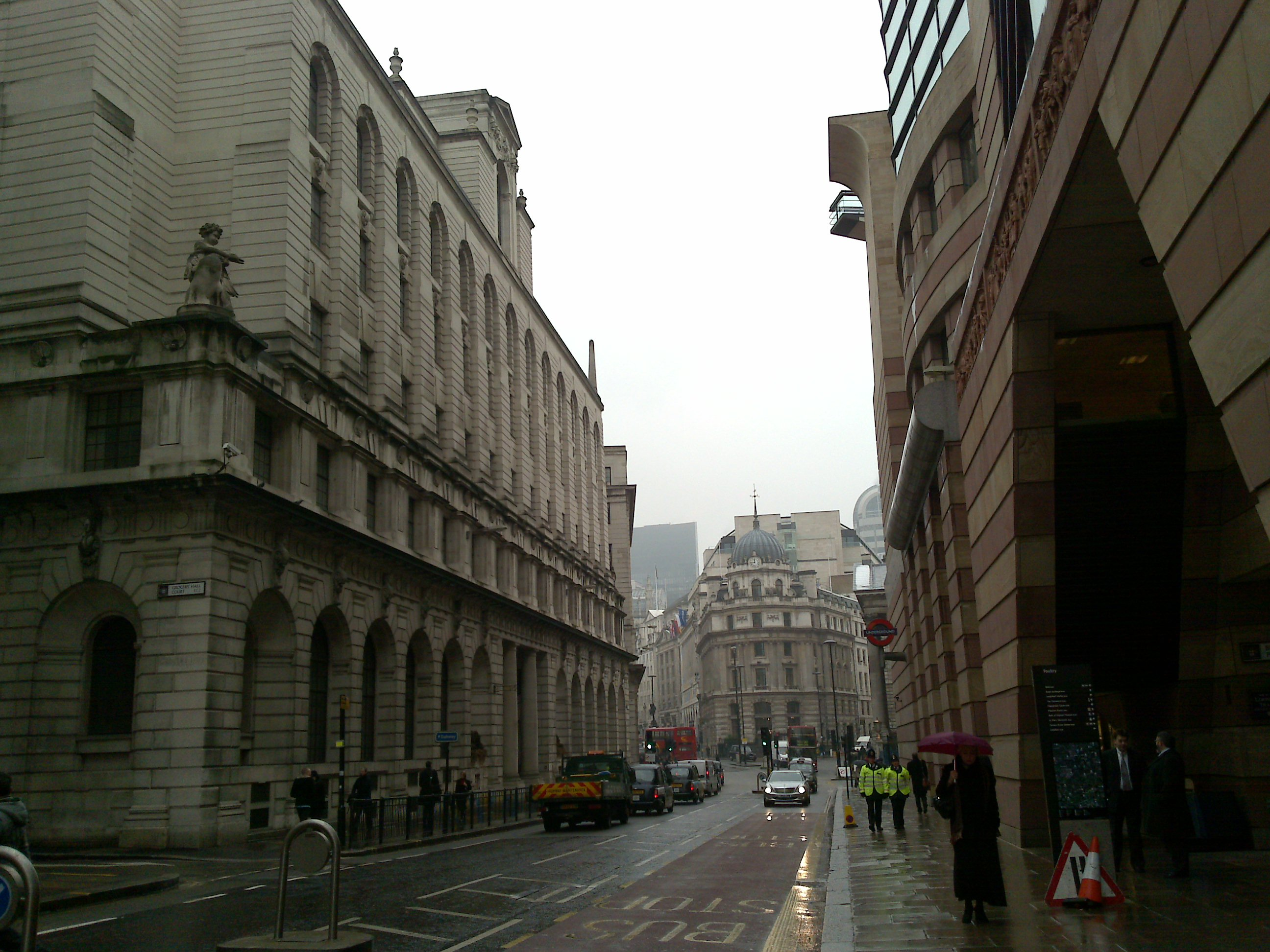 Poultry, London, with 27 Poultry on the left and 1 Poultry on the right, looking towards 1 Cornhill.